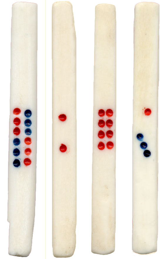 Counting chips in the game of Majiang (Mah Jong): Heaven, Earth, Human, Harmony